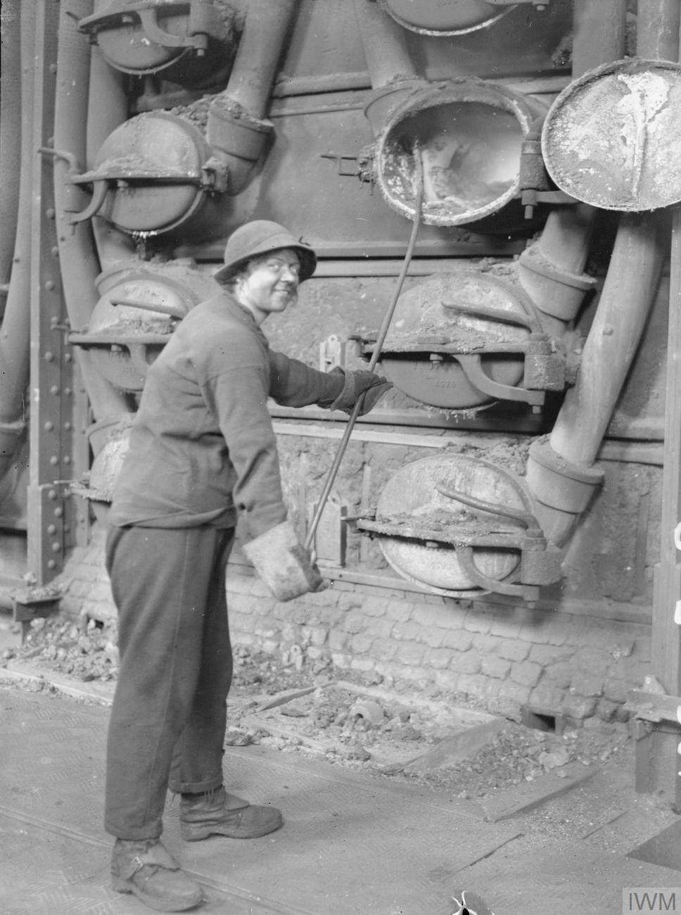 The Employmentof Women on the Home Front, 1914-1918 A female gas worker charging a retort at a gas works, South Metropolitan Gas Co., June 1918.